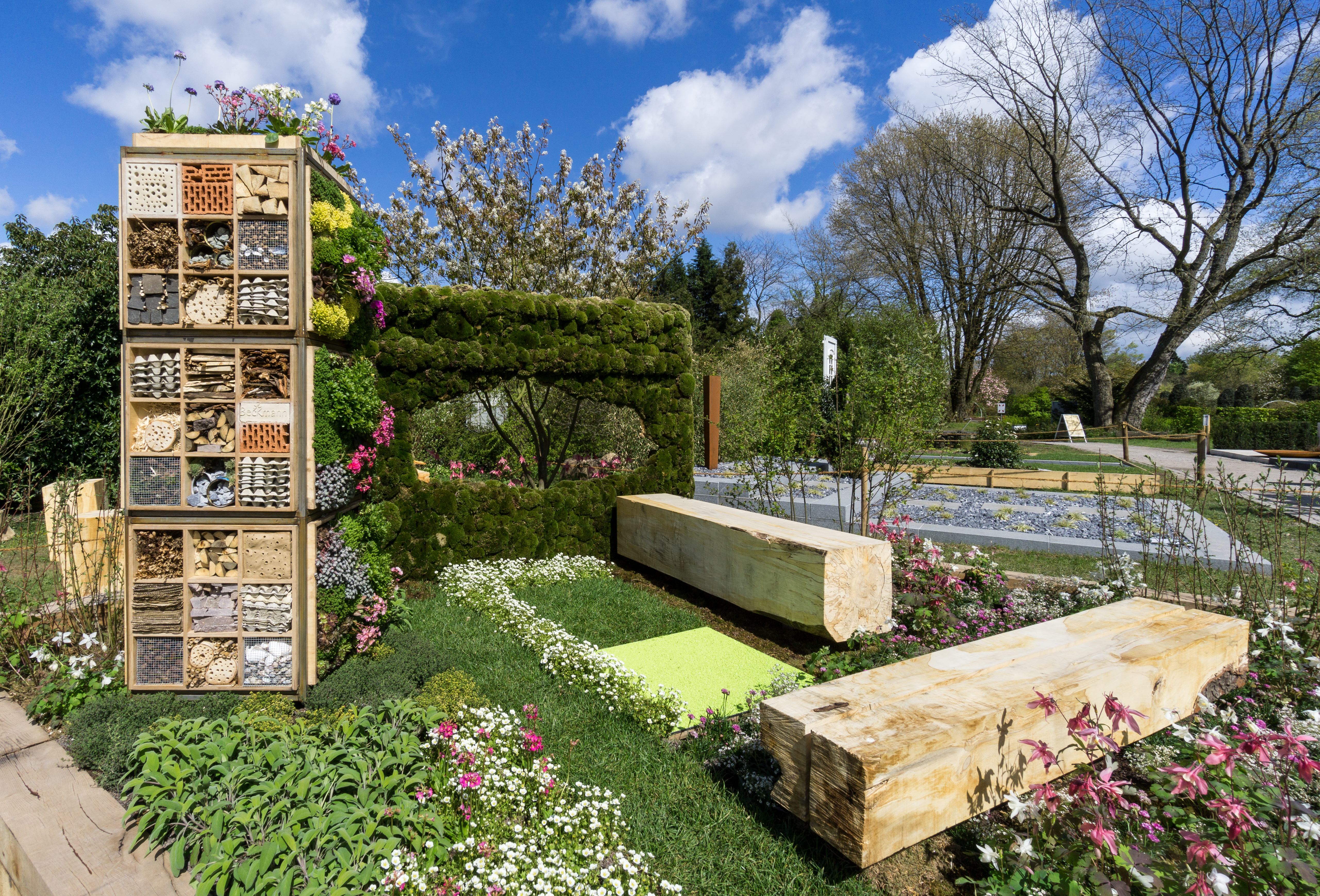 Show garden Bee Home Garden inside Grugapark